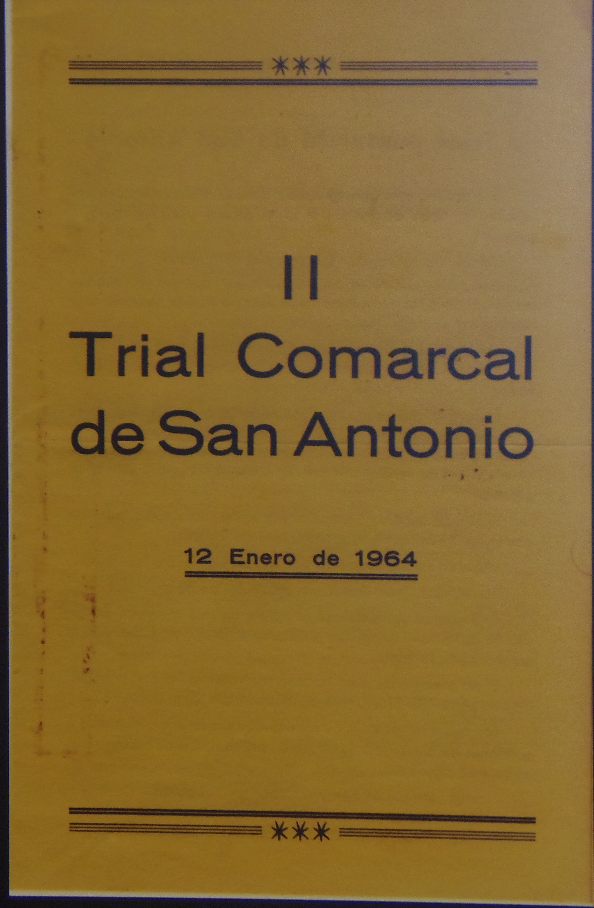 II Trial de San Antonio Poster. Held in family Bultó's San Antonio house.